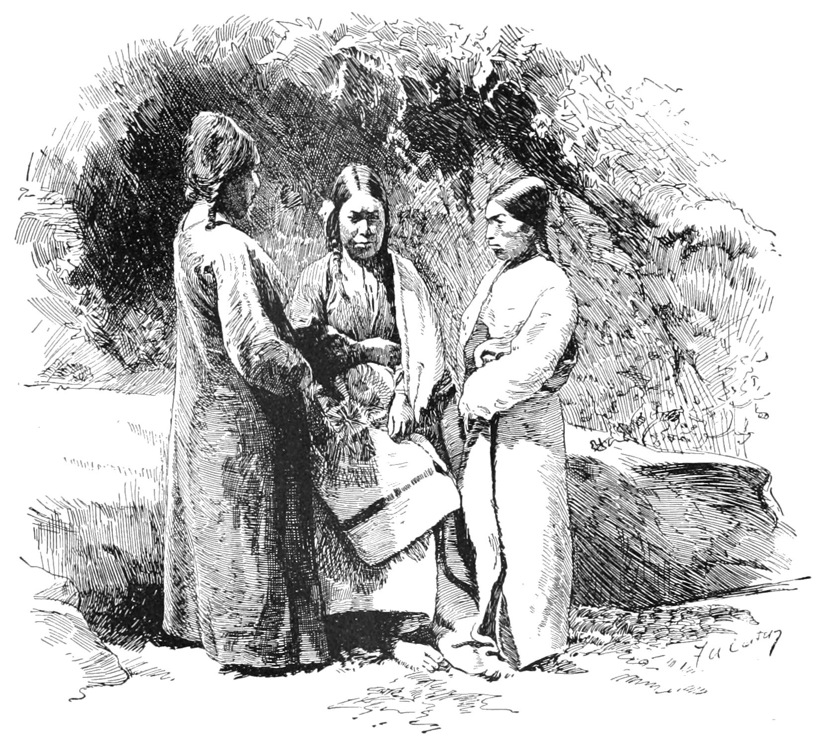 Native American women in traditional dress